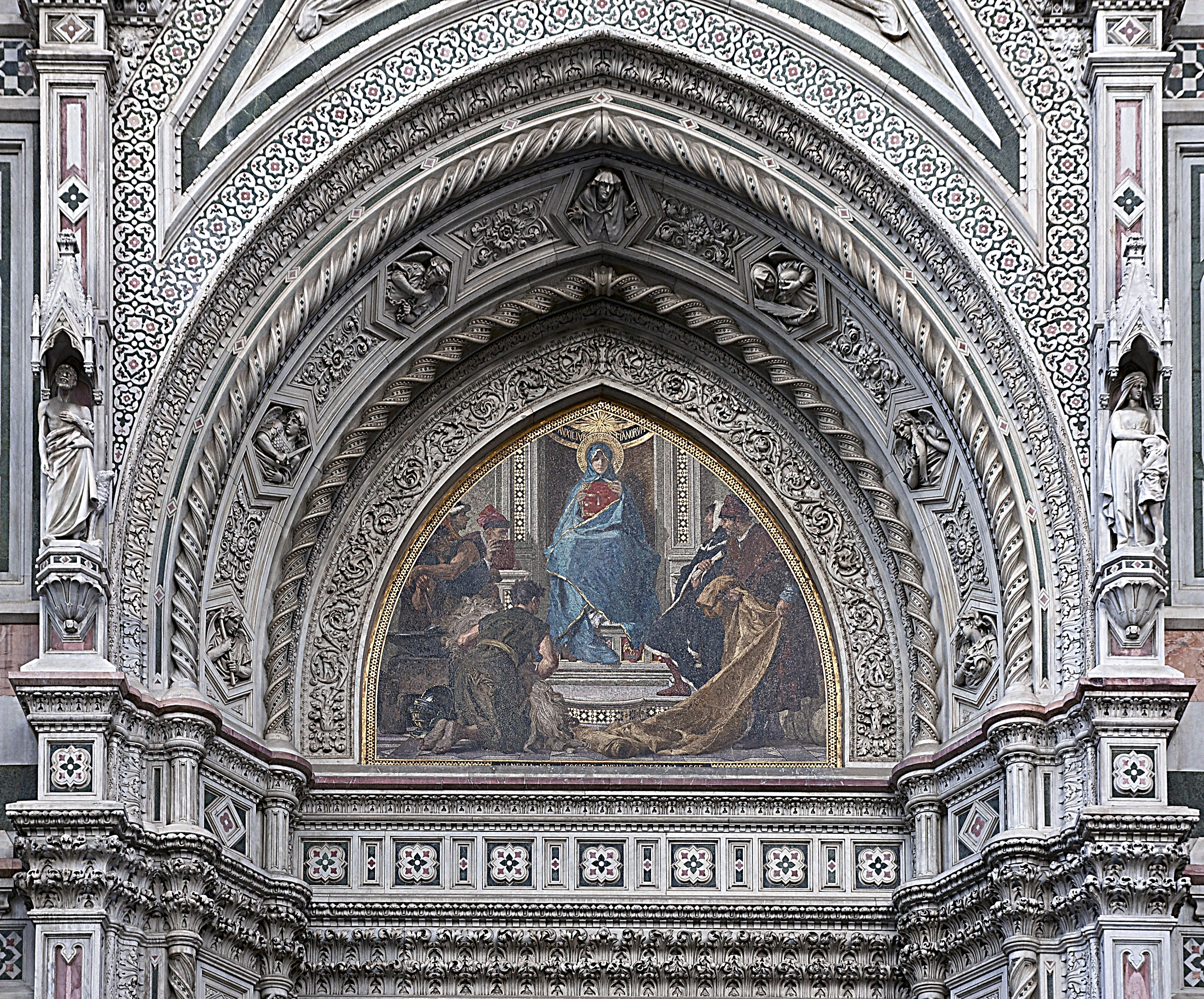 The 19th century gothic revival mosaic of the tympanum above the right gate of the cathedral Santa Maria del Fiore in Florence, Italy. Made in Venice after drawings by Nicolò Barabino in 1886, it shows craftsmen, merchants and philosophers (Umanisti) of Florence paying homage to the Virgin Mary.